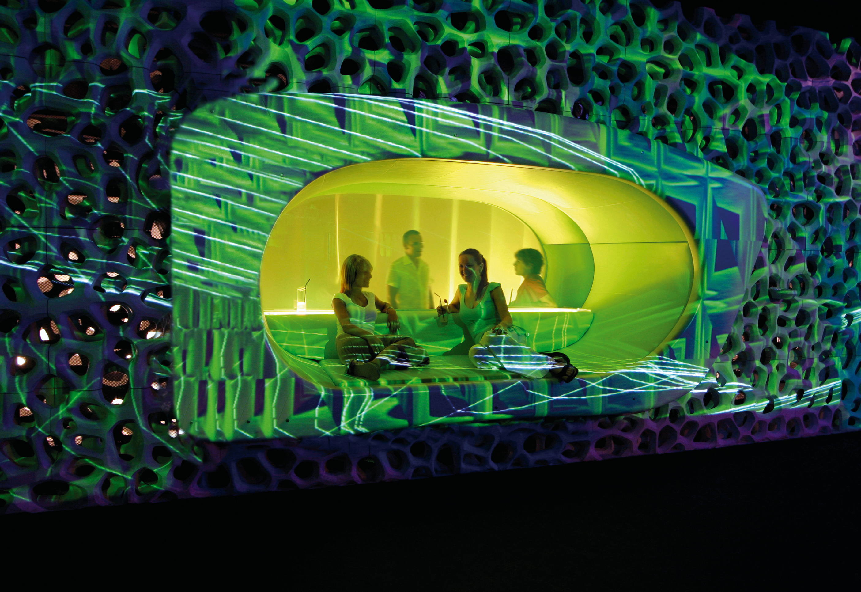 CocoonClub, Frankfurt 2004. Photo by Emanuel Raab, courtesy of 3deluxe. – The cocoons in which the glass pane is situated in the middle as a divider are open to all guests as cushioned seating booths. They are accessible from both sides of the membrane wall.